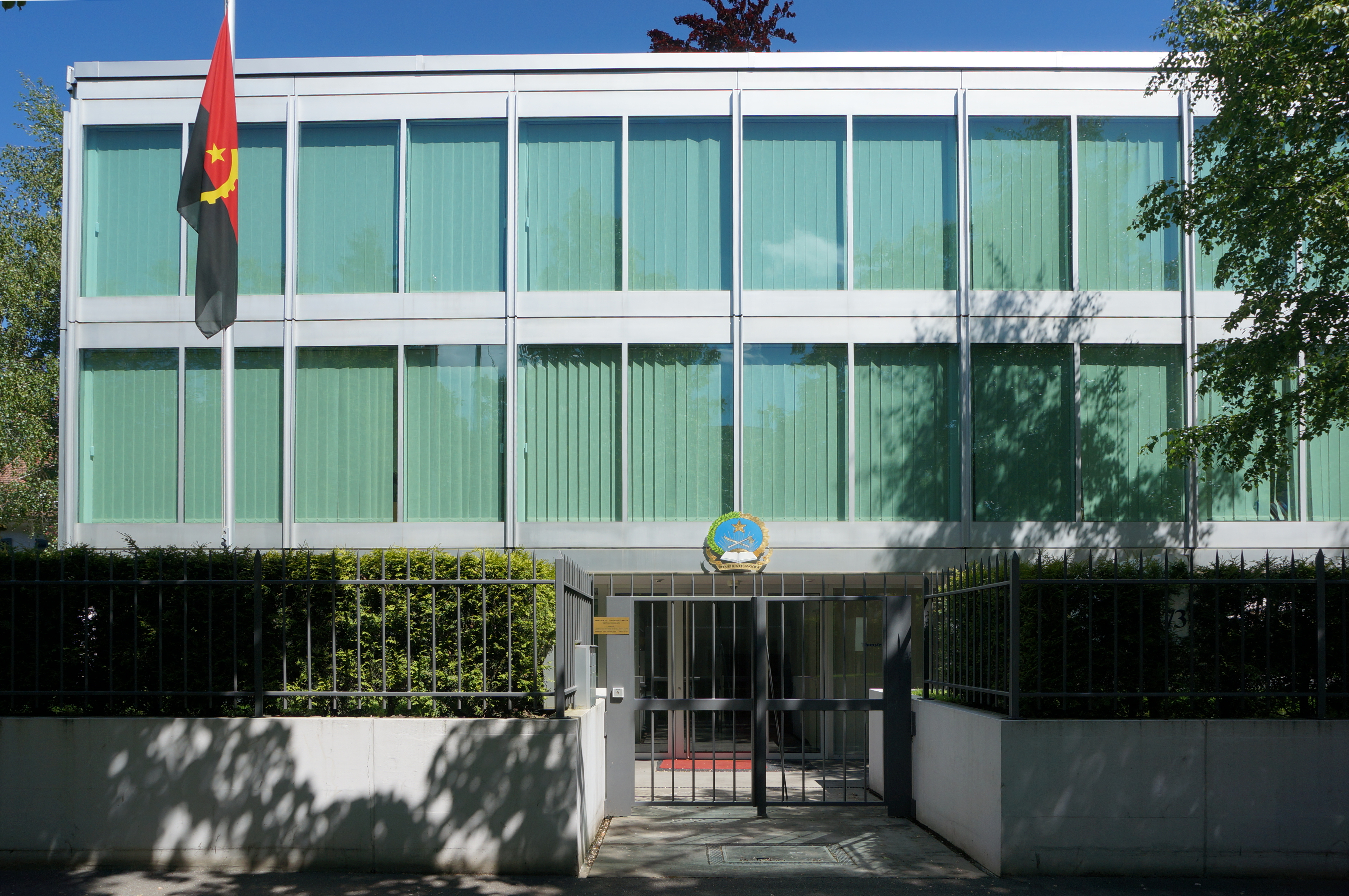 Bern, Thunstrasse 73. Angolan Embassy in Bern.